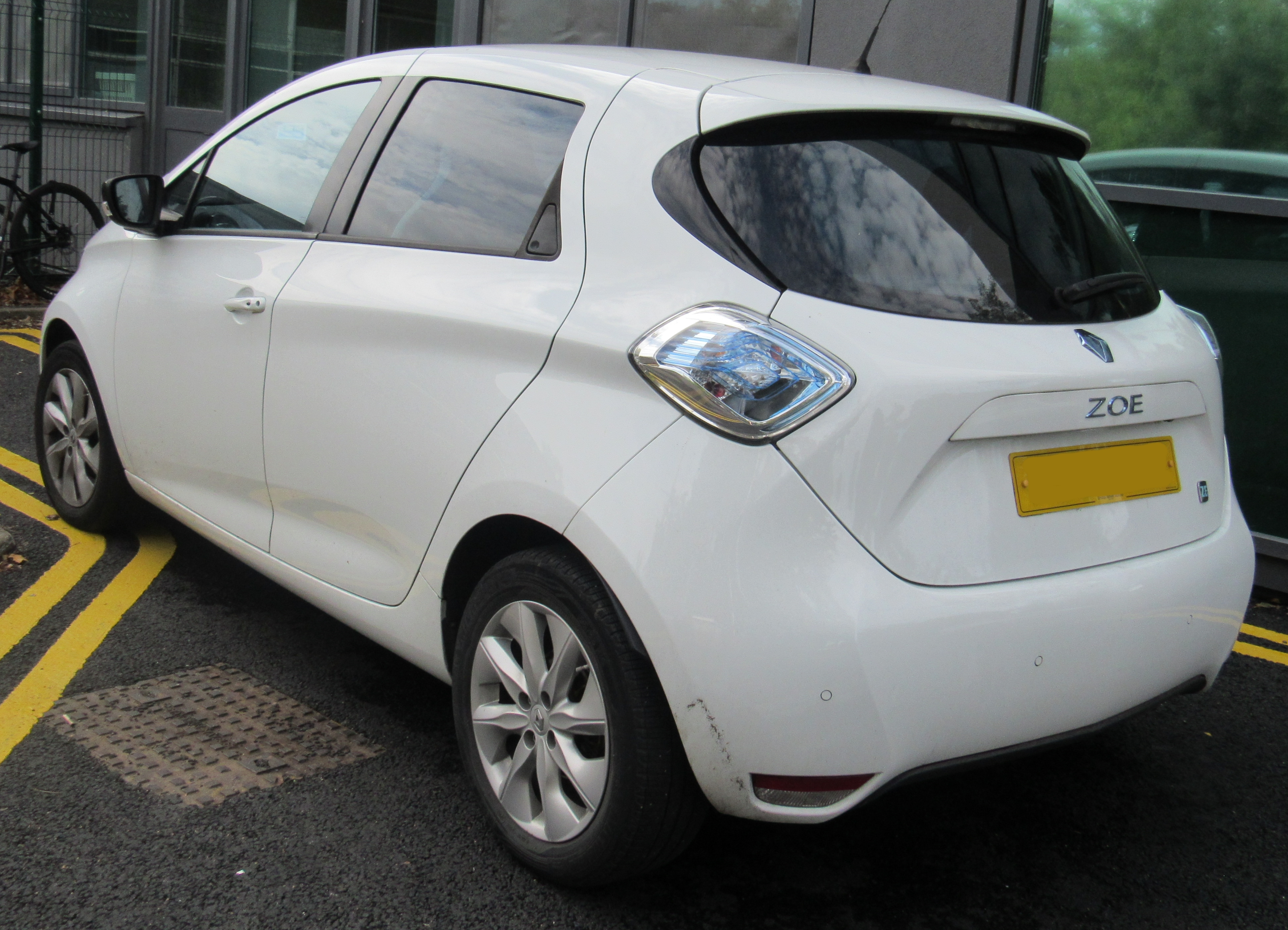 2015 Renault ZOE Dynamique Automatic Rear Taken in Leamington Spa